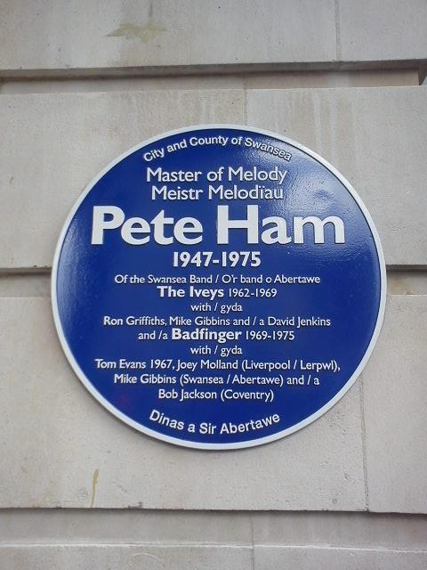 Peter Ham Blue Plaque